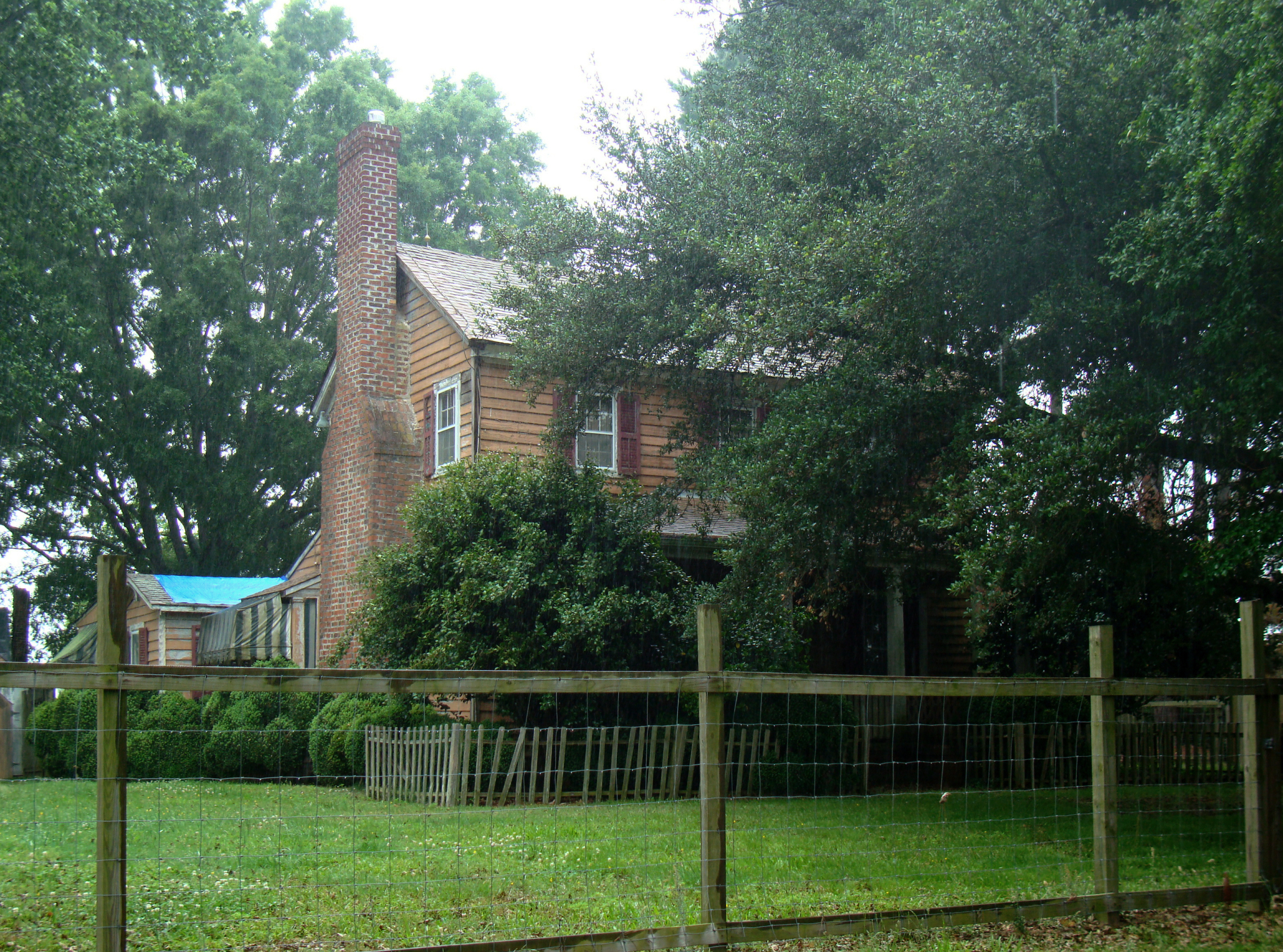 Front of the Woodhouse House historical plantation-era home in Virginia Beach, Virginia.